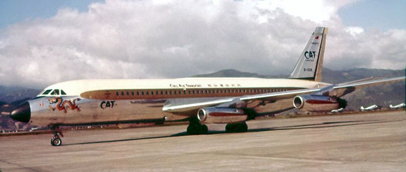 1966 shot of a CAT Convair 880 at the Taipei International Airport.